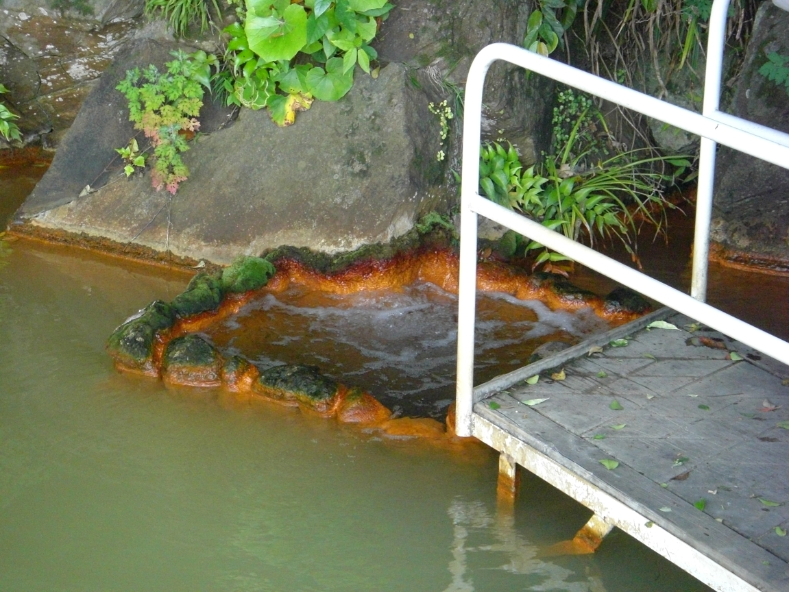 The source of Hyoshimizu onsen, Himeshima, Oita prefecture, Japan. Carbonated spring fountains from the well and overflows into the surrounding reservoir.